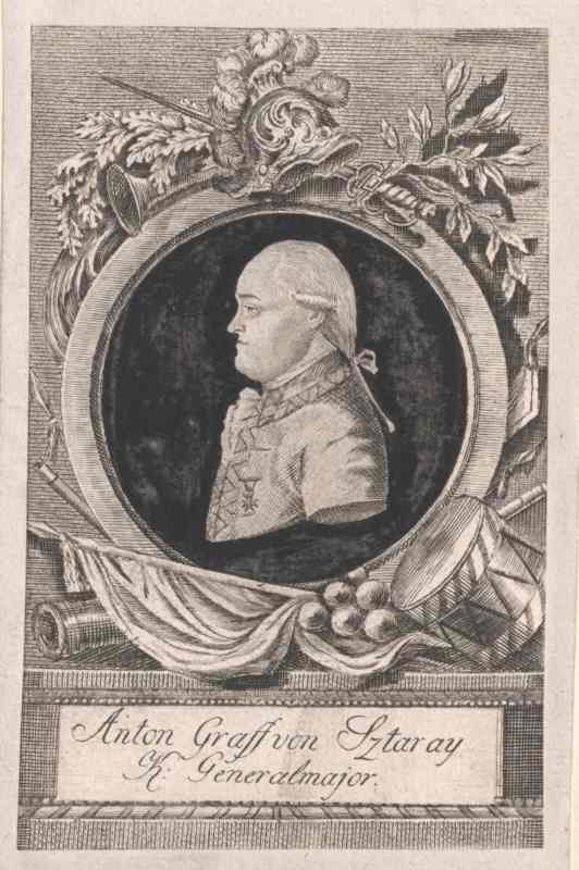 Anton Sztáray de Nagy-Mihaly, Austrian military commander